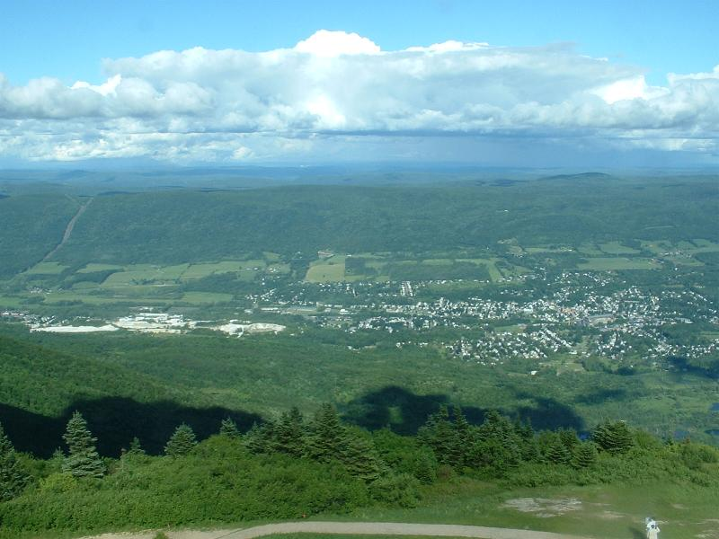 A view of Adams, Massachusetts from the observatory tower on Mount Greylock.